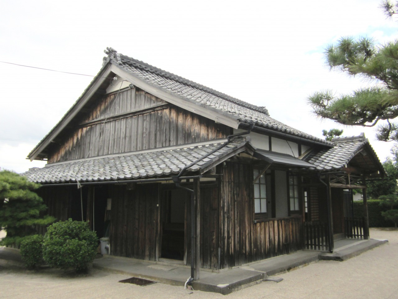 Tōjushoin in Takashima, Shiga.